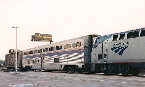 The Kentucky Cardinal at Jeffersonville station in August 2001 with one Hi-Level coach and one boxcar